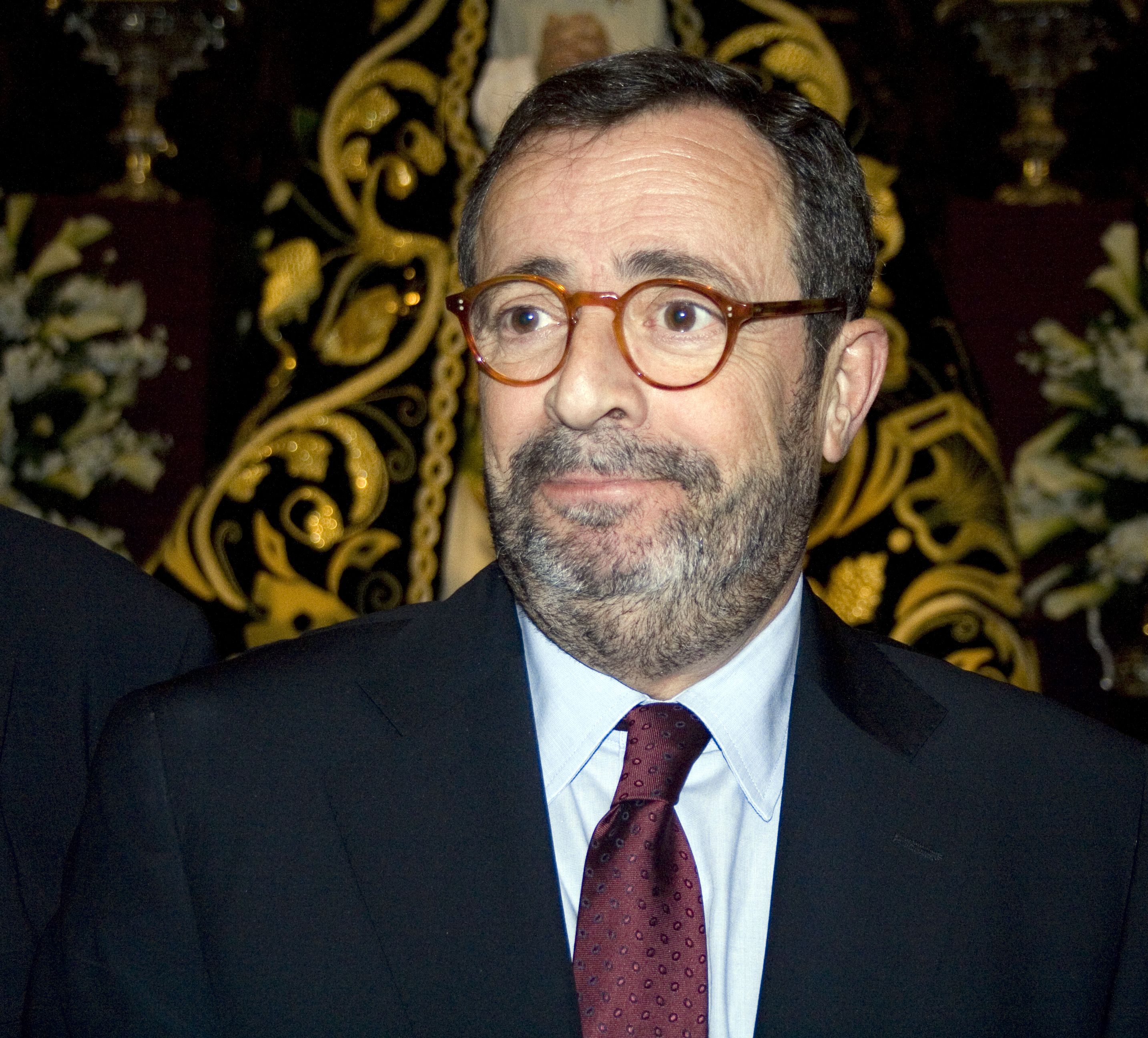 Javier González Ferrari, Spanish journalist.